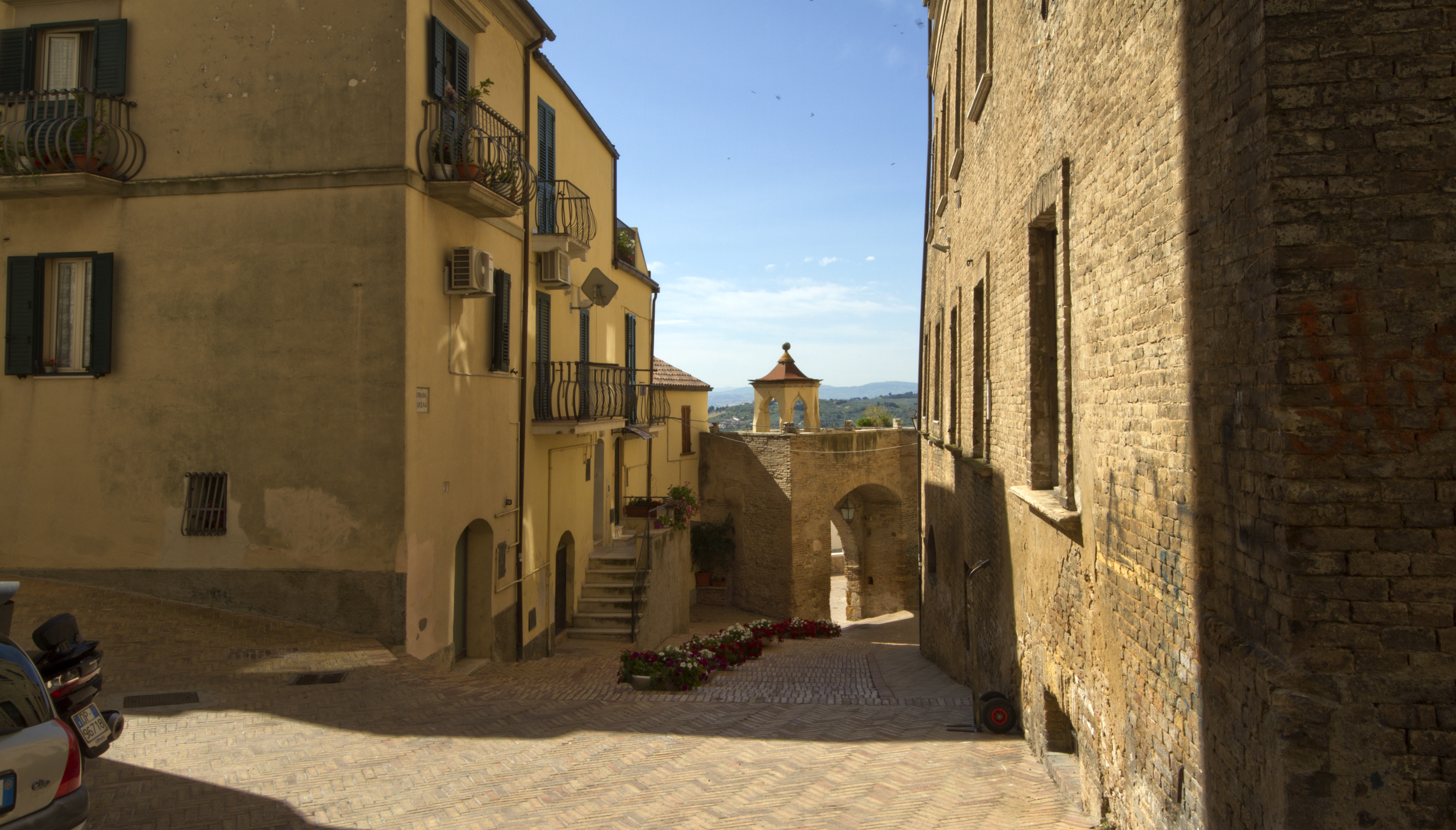 66054 Vasto, Province of Chieti, Italy